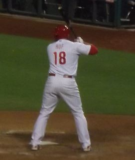 Darin Ruf stands ready to hit in a game on August 22, 2014